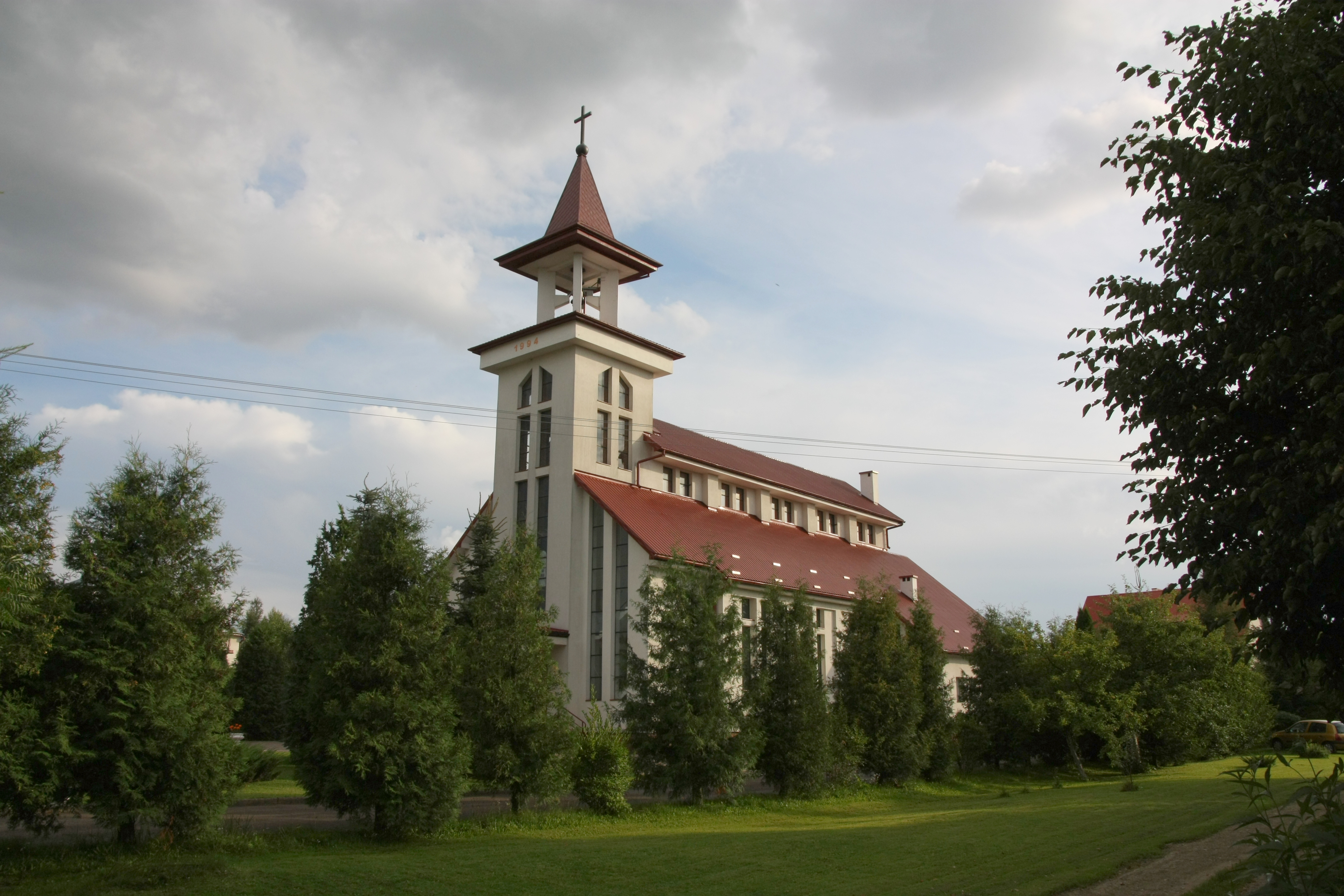 New church in Prusiek.